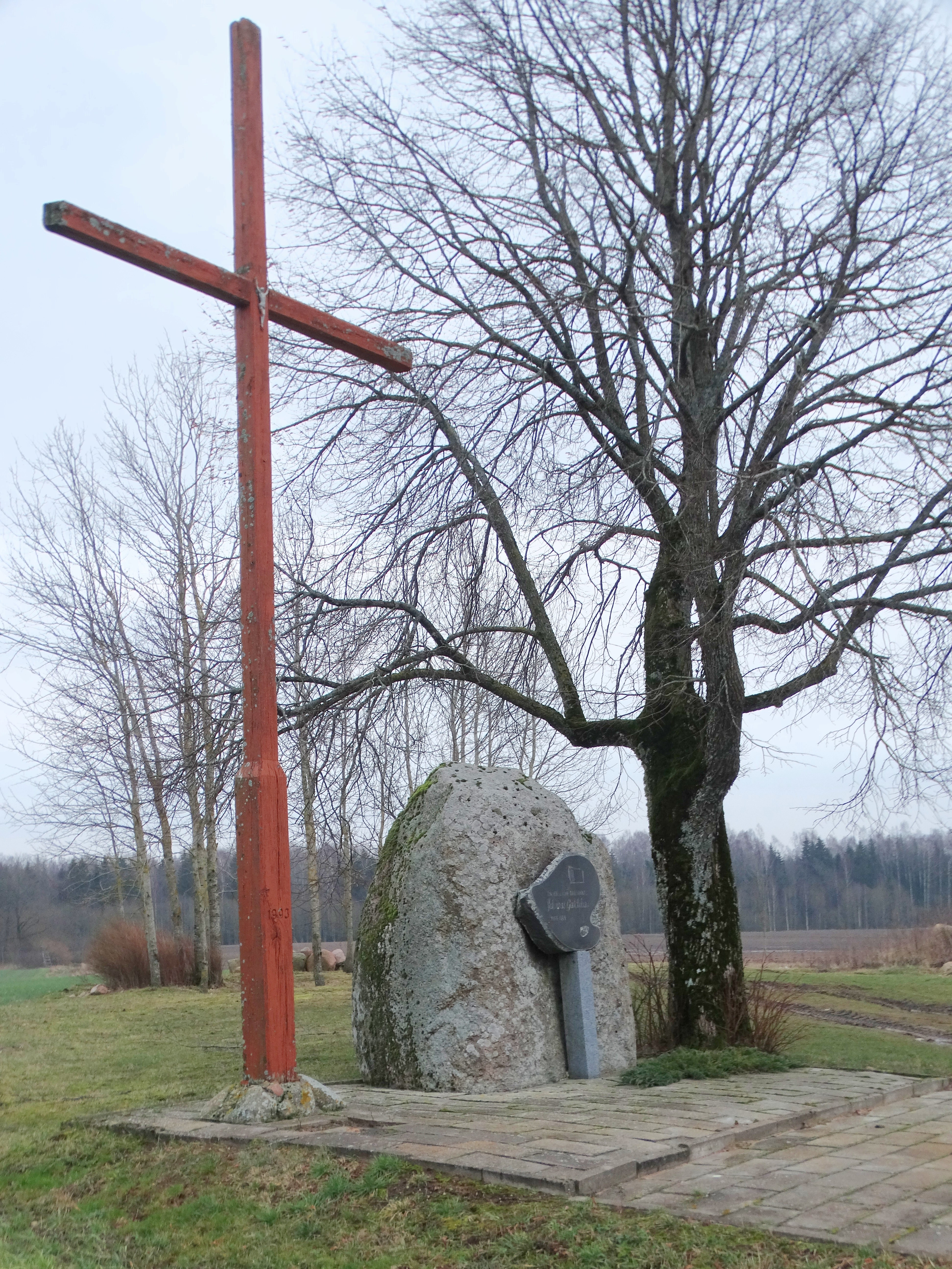 Adomas Galdikas, Giršinai, Skuodas District, Lithuania